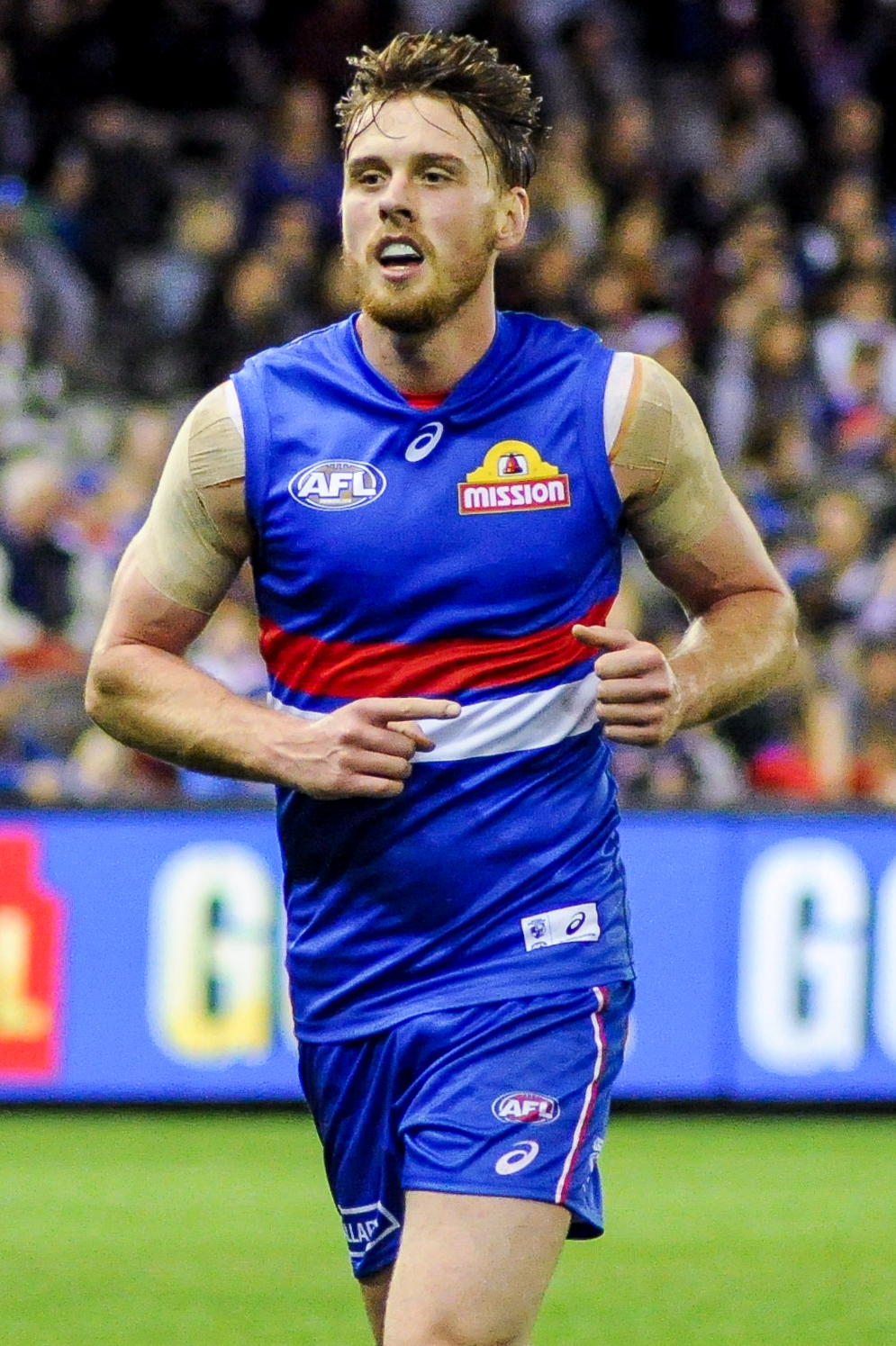 Jordan Roughead during the AFL round thirteen match between the Western Bulldogs and Melbourne on 18 June 2017 at Etihad Stadium in Melbourne, Victoria.